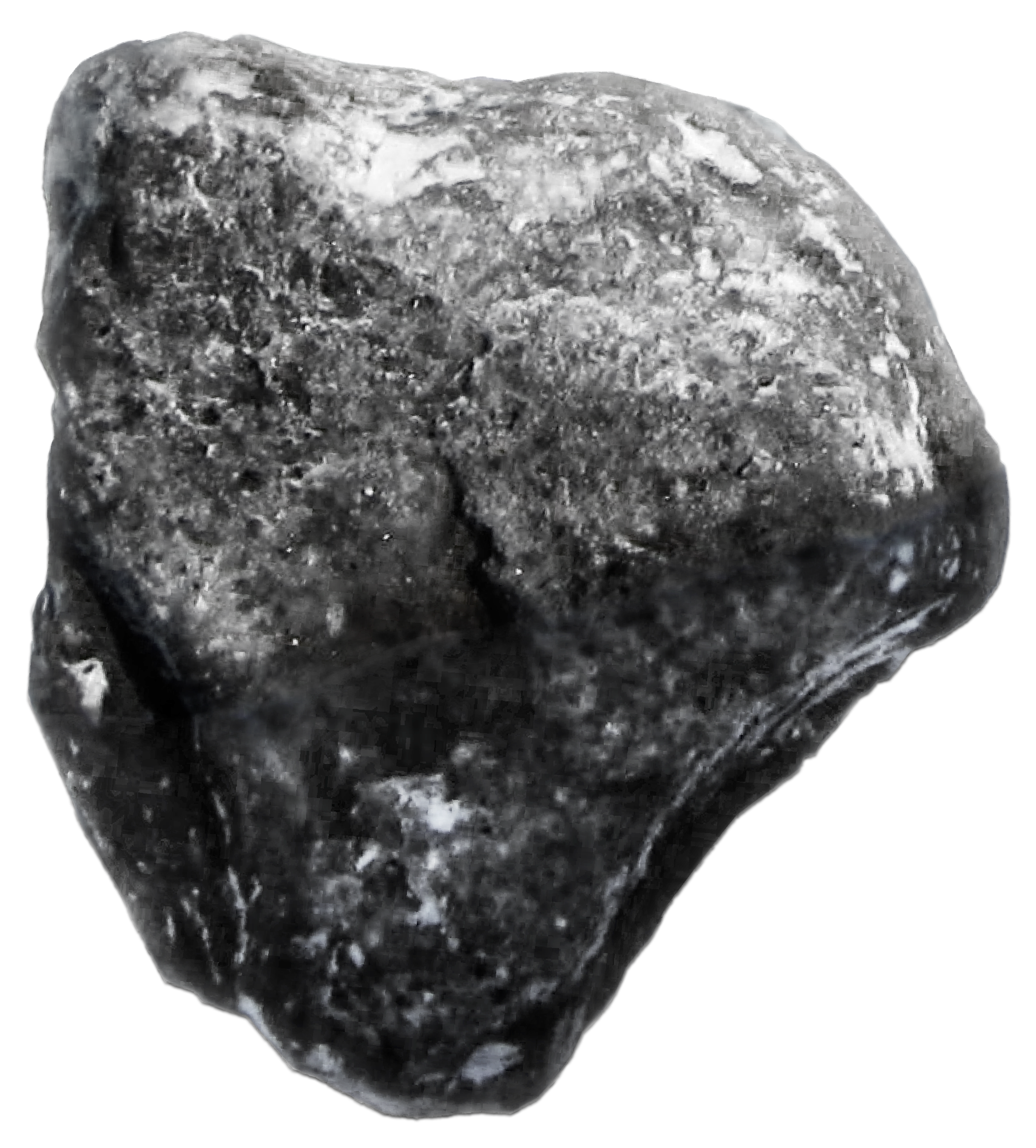 The original/actual Húsafell Stone (190 kg)